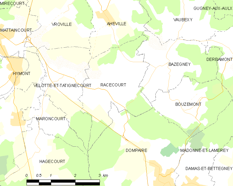 Map of French municipality Racécourt